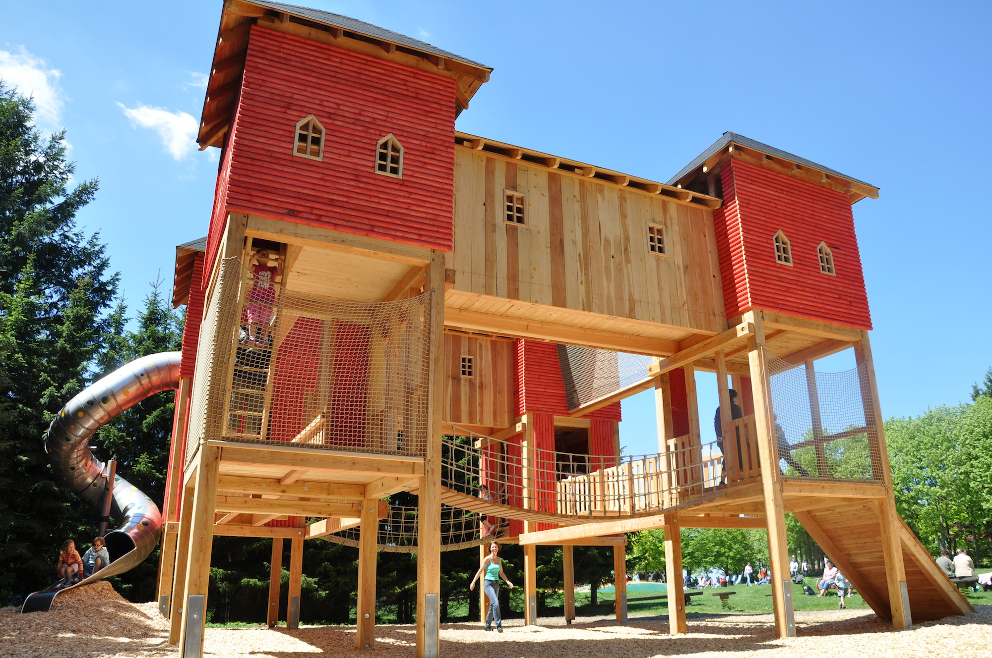 Panorama Park Wildpark Sauerland, Germany